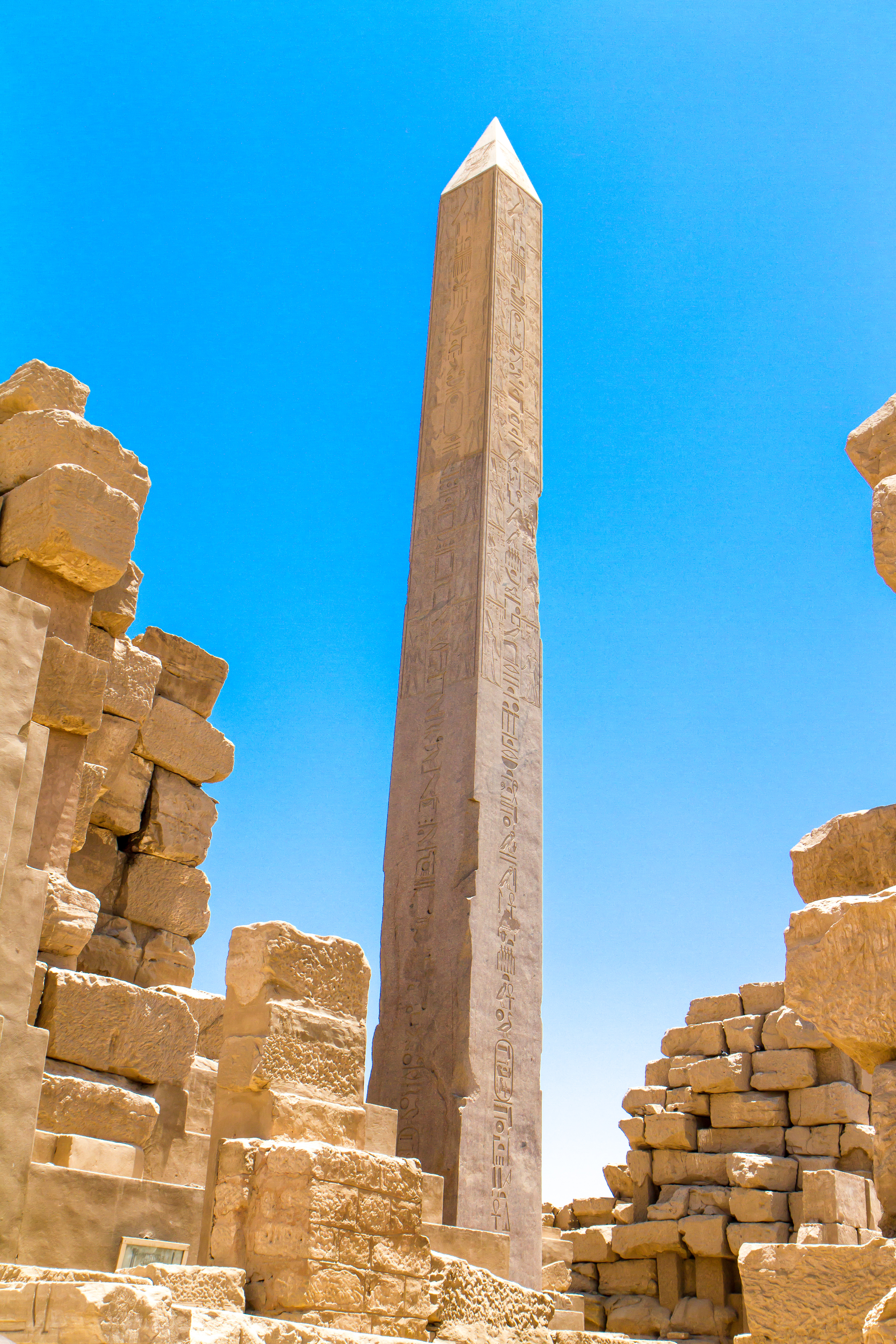 Luxor, Luxor City, Luxor, Luxor Governorate, Egypt